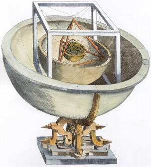 Kepler's model of the planetary orbits as Platonic solids.